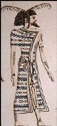 A Lybian drawn by ancient Egyptians